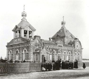 Saint's Alla Church